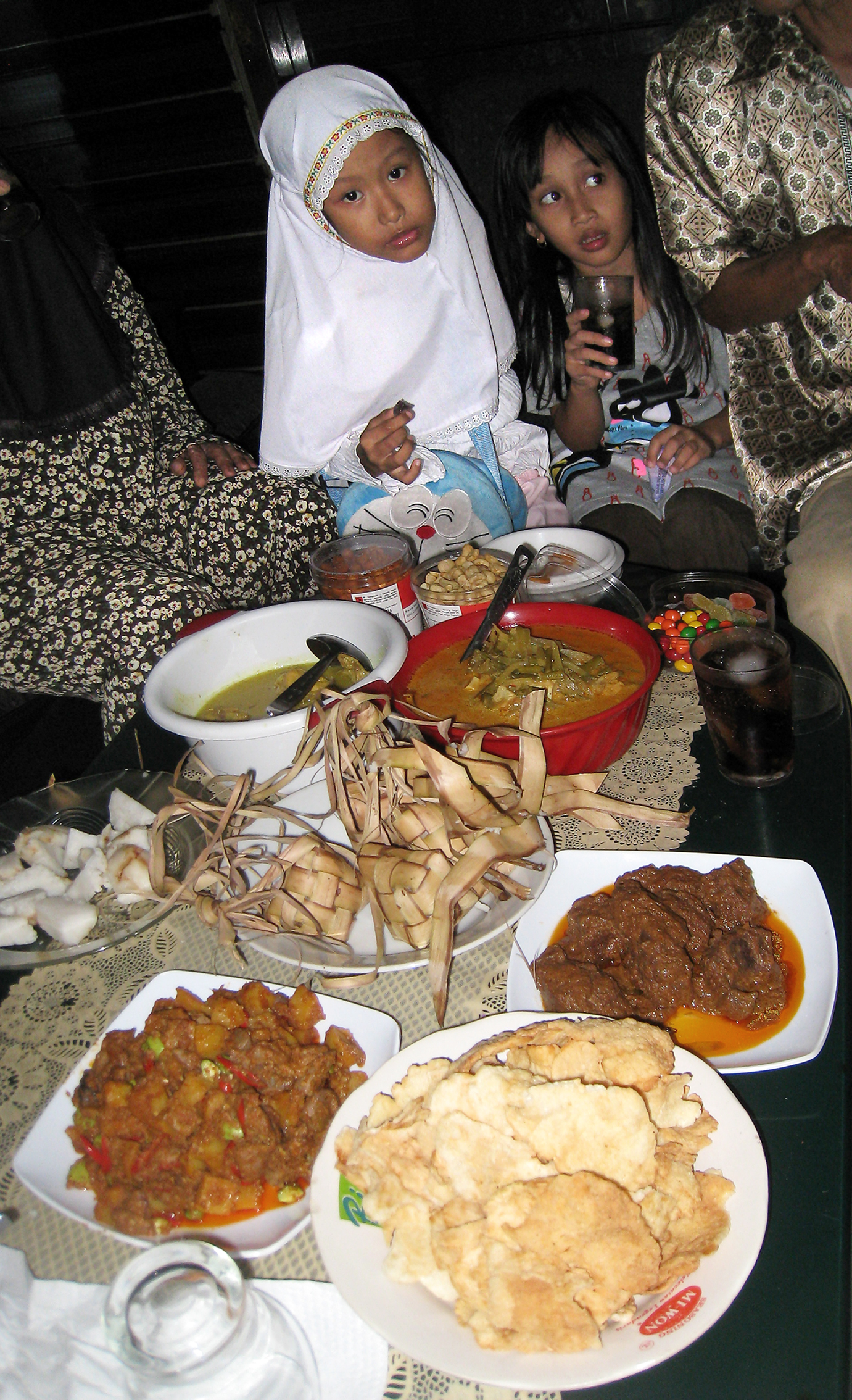 Lebaran, Idul Fitri or Eid ul Fitr feast in Indonesia. Family and neighbours come together and celebrate the Islamic holiday with special dishes, such as ketupat, rendang, opor ayam, sayur labu, sambal goreng ati, emping, penuts and candies.